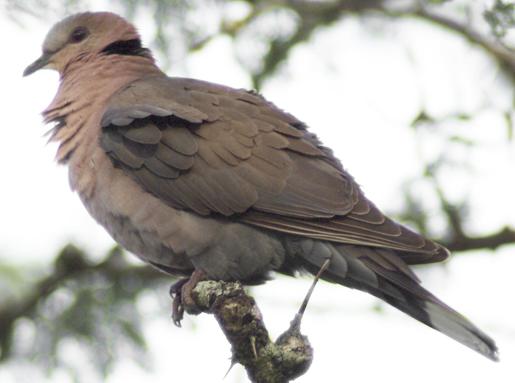 Red-eyed Dove, Streptopelia semitorquata, Sweetwaters Game Reserve, Kenya. The time stamp is 10 hours too early. Thanks to Laurie Tümer for enhancement.